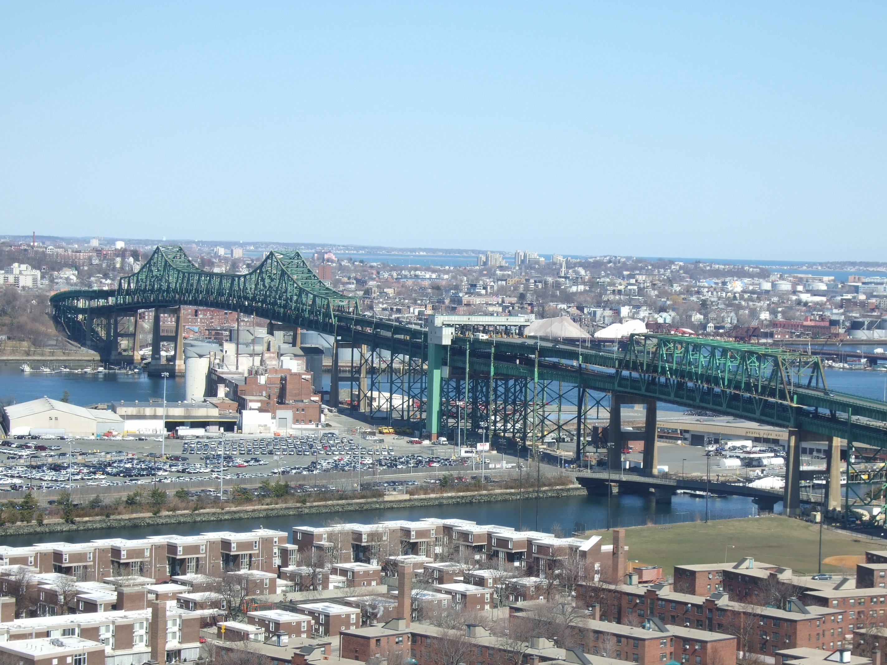 View of the Tobin Memorial Bridge plus Chelsea and Revere from the Bunker Hill Monument